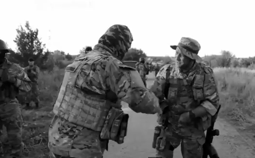 «Right Sector»'s leader Dmitro Yarosh (at right) meets Semenchenko, «Donbas Battalion» commanding officer.